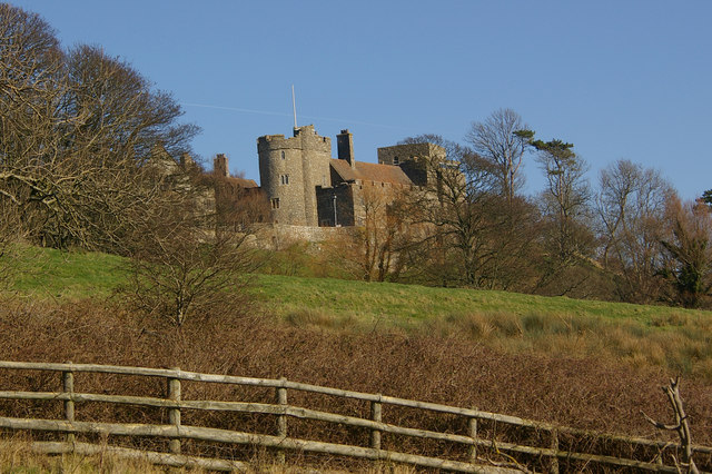 Lympne Castle This building, parts of which date from the 13th Century, was once occupied by Thomas à Becket.